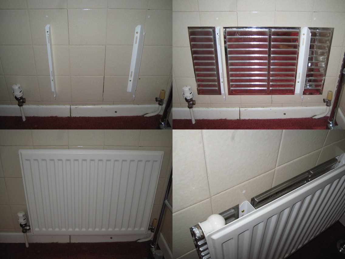 A photo sequence showing radiator reflector panels being installed behind a domestic radiator. PhotographsWall with radiator removed.Reflector panels stuck to wall. The panels are actually silver-coloured, but appear pink due to reflections from the carpet.Radiator mounted in front of panels.View of panels behind radiator, showing shaped surface for inducing turbulence.